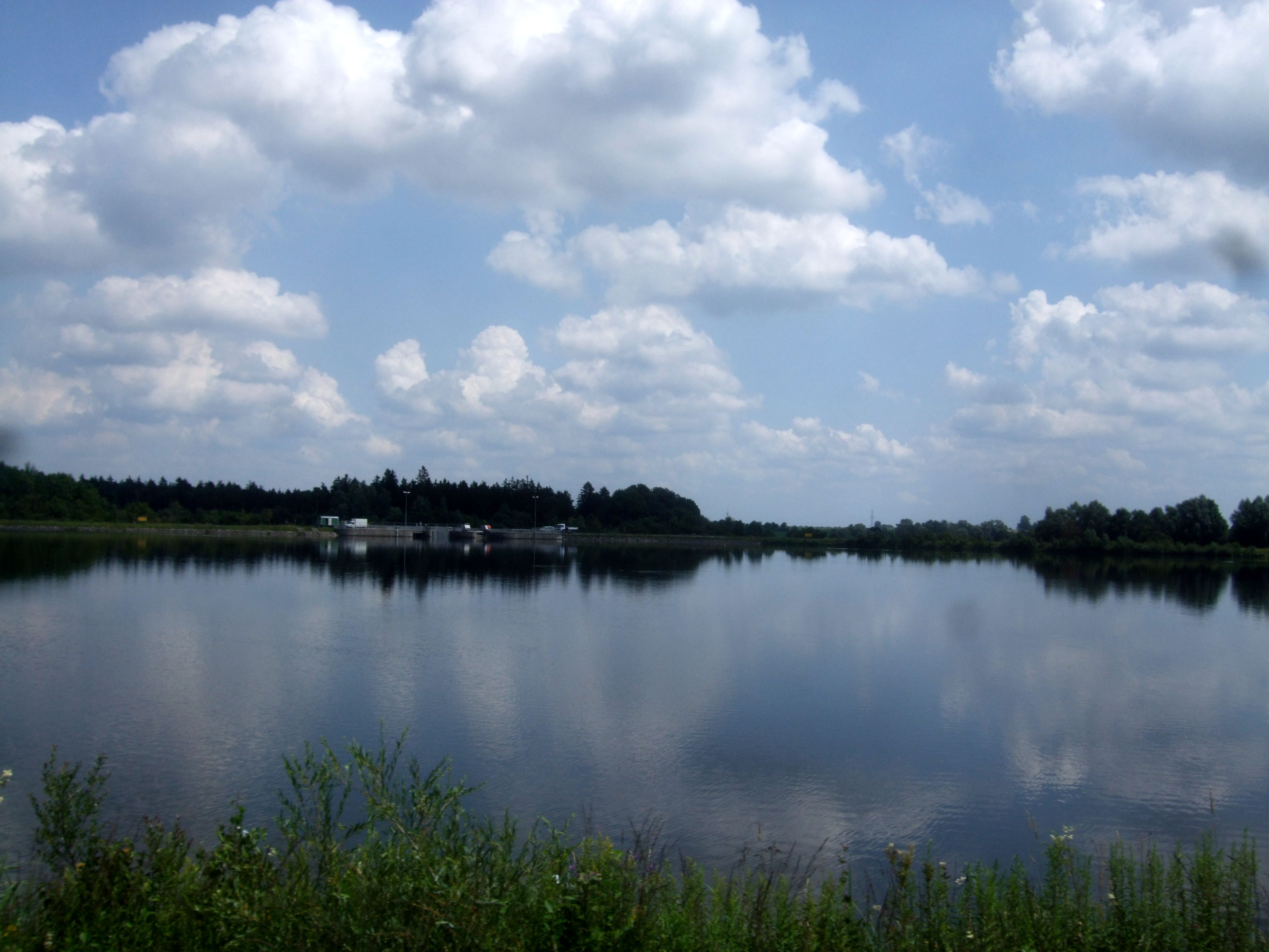 Lake Inningen